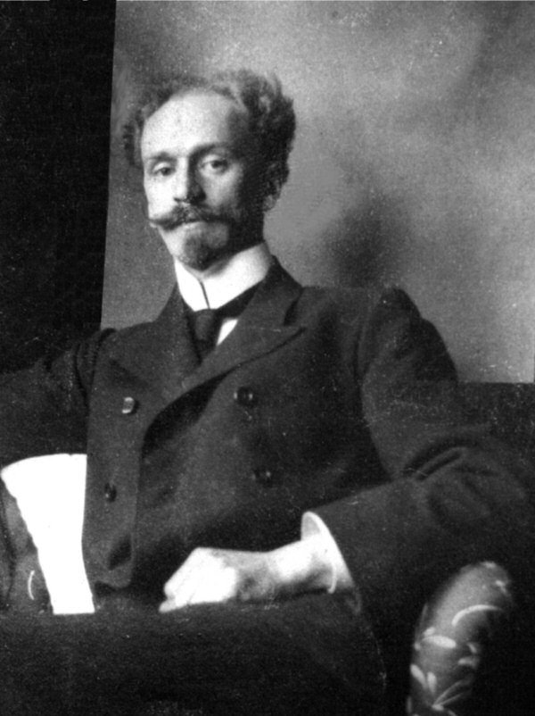 Vladimir Pohl, Russian composer and professor of Russian Conservatory in Paris (1875—1962)